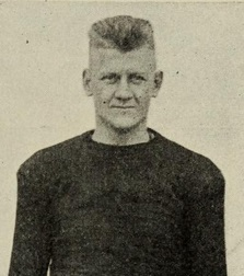 Crop of Georgia Bulldogs football player Hugh "Puss" Whelchel